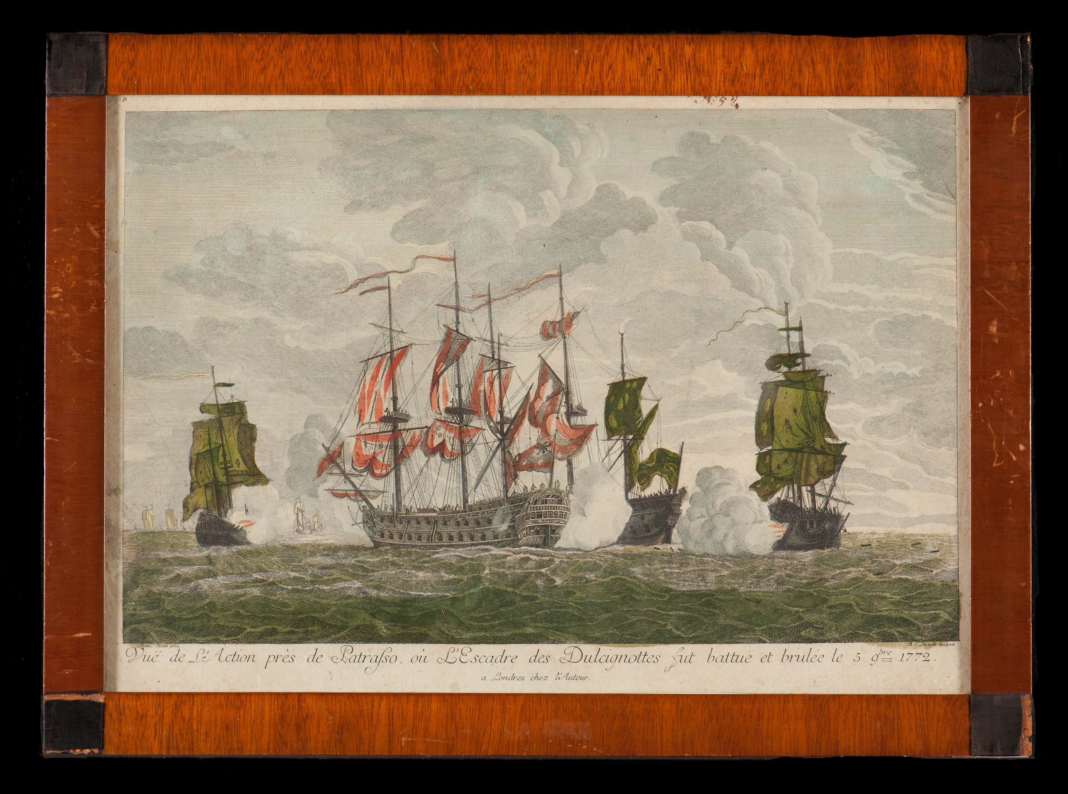 ""Vue de Le'action prés de Patrasso, ois L'Escadre des Dulcignottes fut battur le 5. 9:bre. 1772". "B.F. Leizelt, Sculprit"." Painting from 1772 depicting British and French sailors at battle with Dulcignottes (Ulcinj pirates). These pirates were defeated on 5 September, 1772.